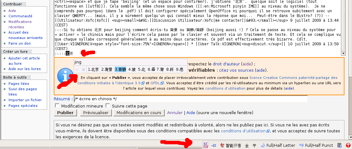 screen capture : using 'SCIM chinese' to edit wikipedia (Ubuntu/FireFox)